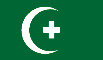 Wafd Flag